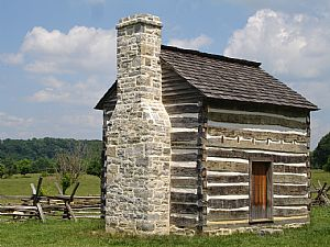 A reproduction of the original building that once stood on the same foundation. We don't know who lived here, or what the building was used for, but the current structure was based off a photograph from the 1890s.